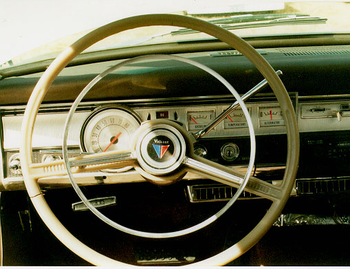 1965 Canadian Valiant Custom 200 dashboard, virtually identical to US 1965 Dodge Dart configuration.